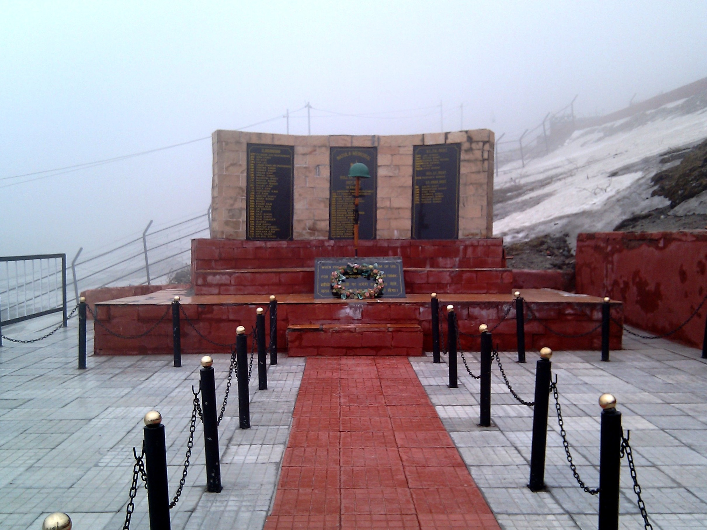 War Memorial, Nathu La